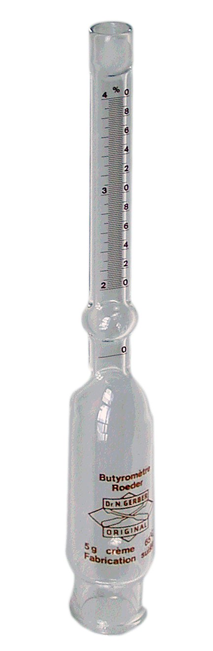 Butyrometer